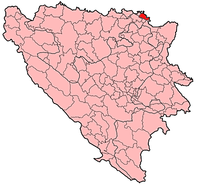 Municipality of Orašje in Bosnia and Herzegovina